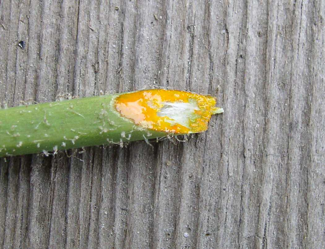 A cut stem of greater celandine (Chelidonium majus) is dripping with yellow poisonous sap.